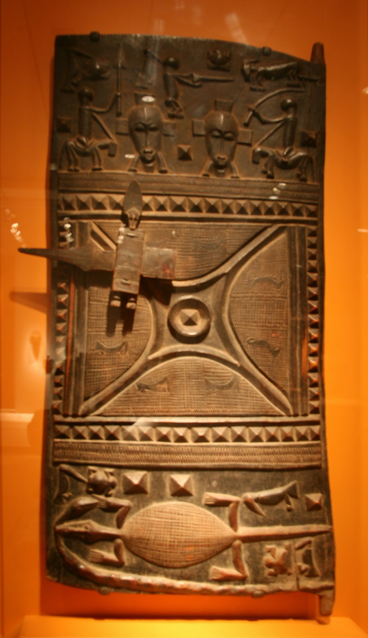 Door with lock, Workshop of Yalokone, Northern Senufo peoples, Boundiali, Côte d'Ivoire, c. 1920s, Wood, iron Wealthy and powerful individuals in the northern Senufo region commissioned carved doors as symbols of prestige. The relief-carved motifs are associated with the beliefs in the powers of divination, nature spirits and the supernatural held by members of Poro, the men's initiation society that is found among a number of groups in western Africa. The design on the large central panel is adapted from a scarification pattern adorning a woman's navel. To the Senufo, this symbol evokes social order as ordained by God. The top panel includes two face masks similar to those owned and used by the men's and women's initiation societies. They are, at times, also performed for entertainment. (National Museum of African Art)